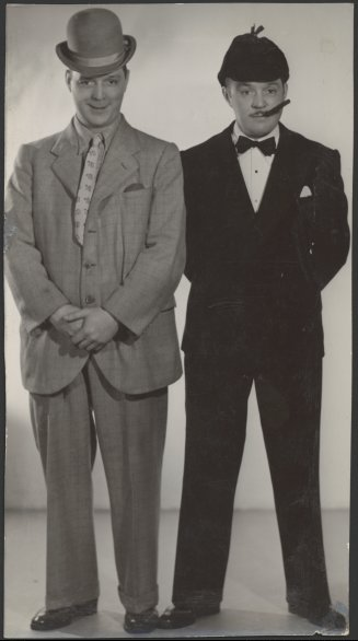 Clem Dawe with bowler hat and Eric Edgley with cap and cigar, 192-?